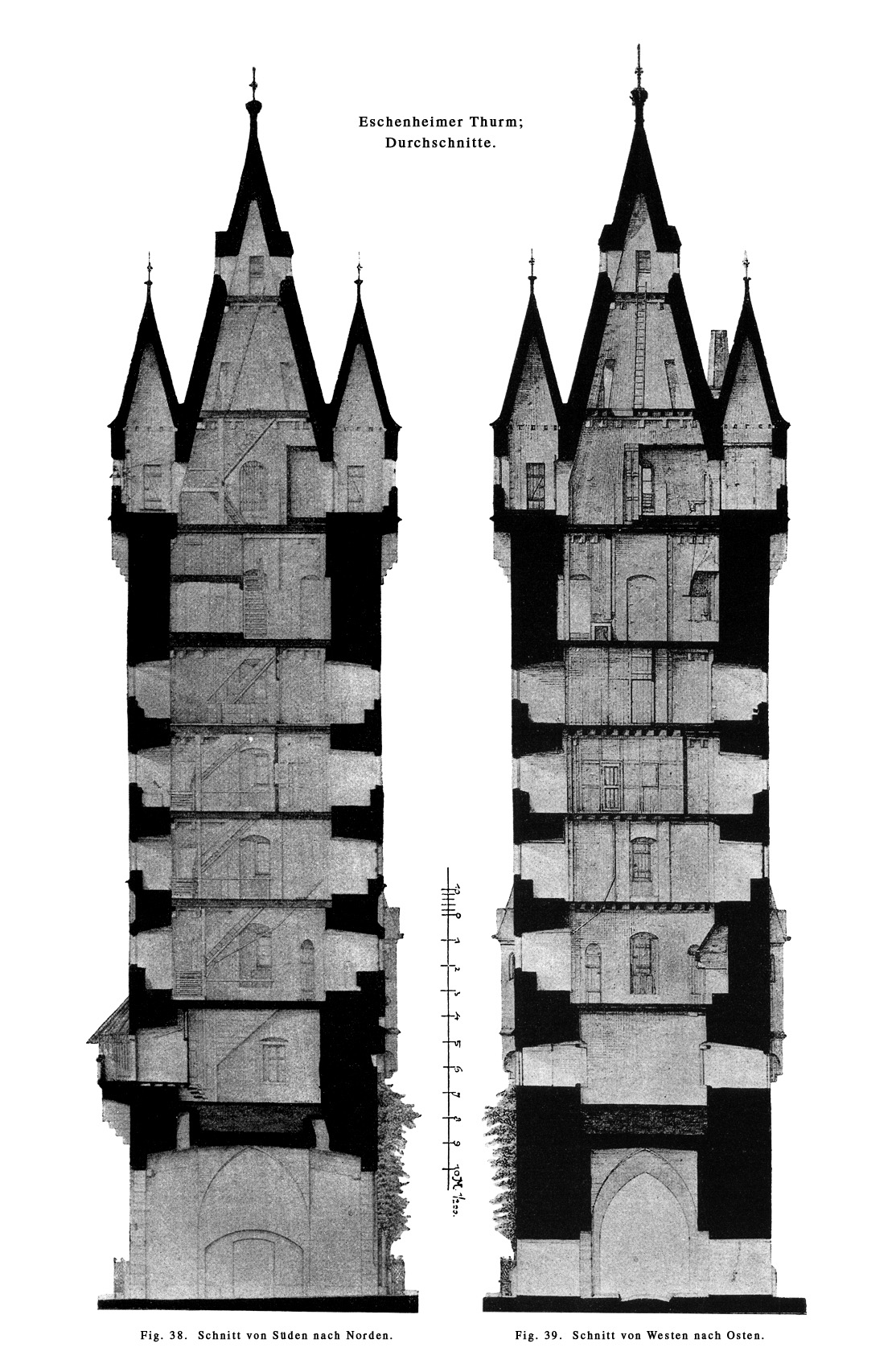 Frankfurt on the Main: Eschenheimer Eschenheim, intersections